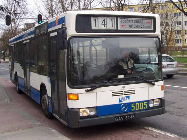 Jelcz M122MB bus (#5005, rej. GAV 8146) with Mercedes-Benz O405N2 chassis in Gdynia, Poland. Built 1996, PKA Gdynia operator.